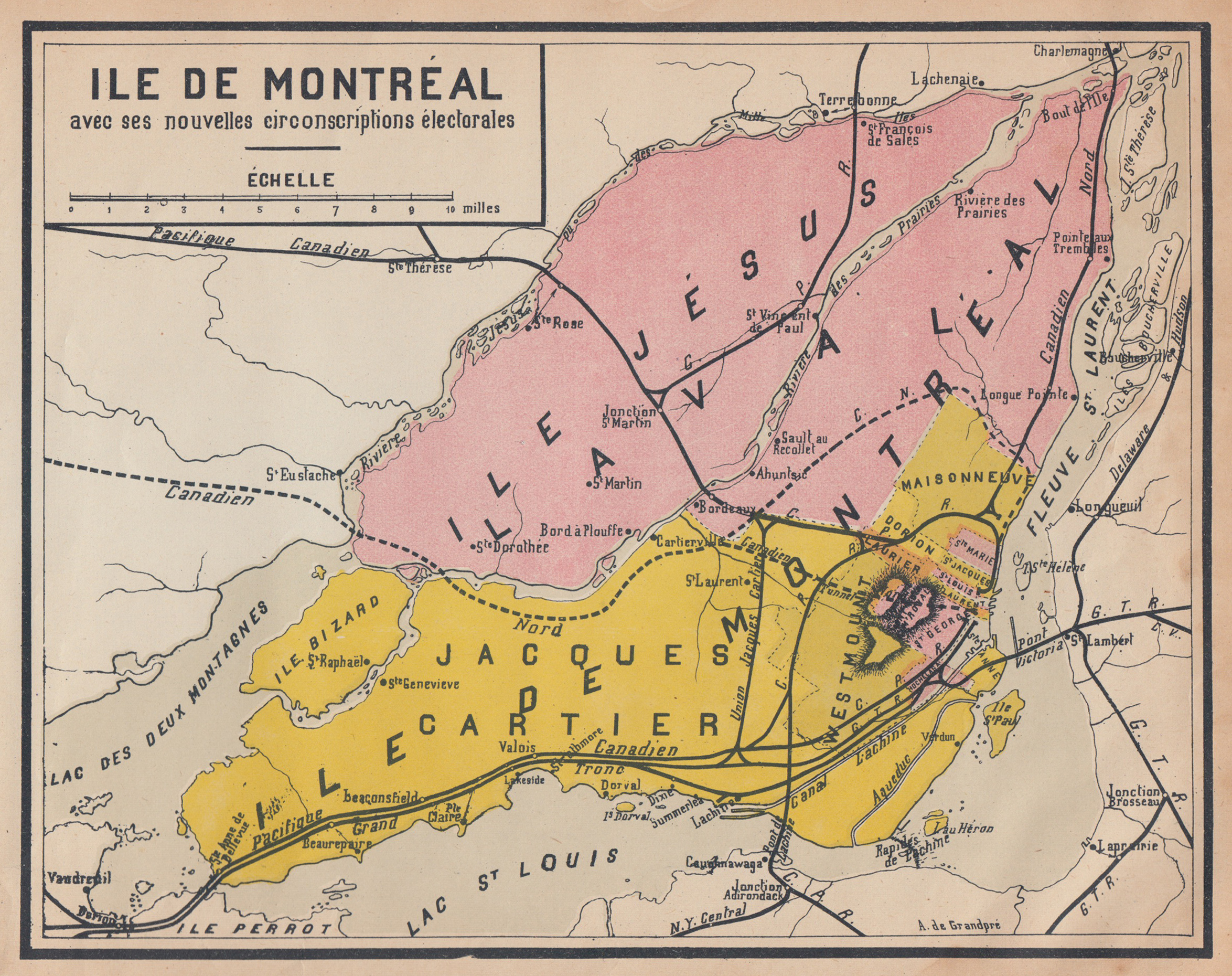 [Translation from French] Island of Montreal with its new electoral districts. Electoral map from Géographie-Atlas, Cours Moyen, Montreal 1920